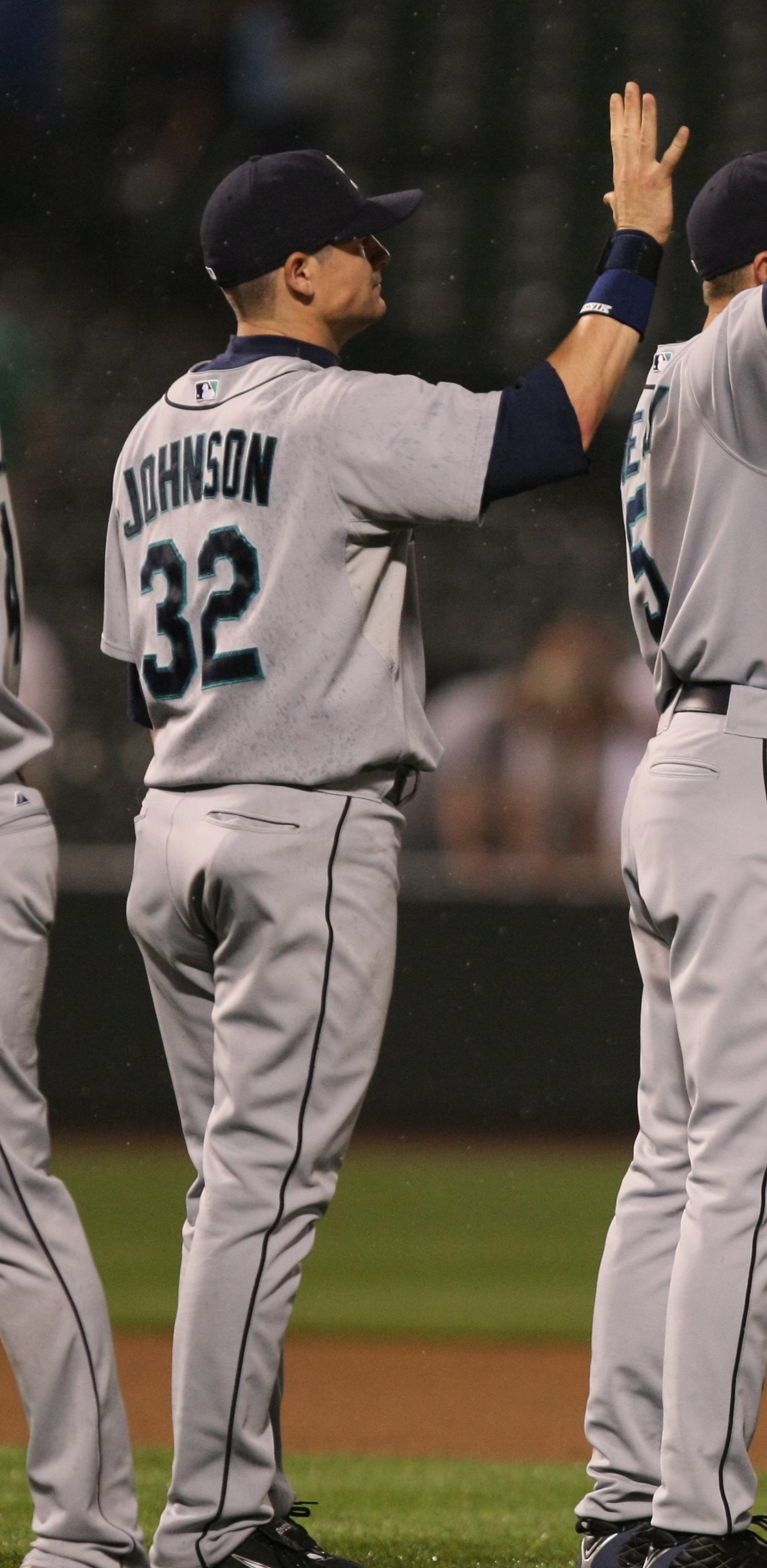 Rob Johnson